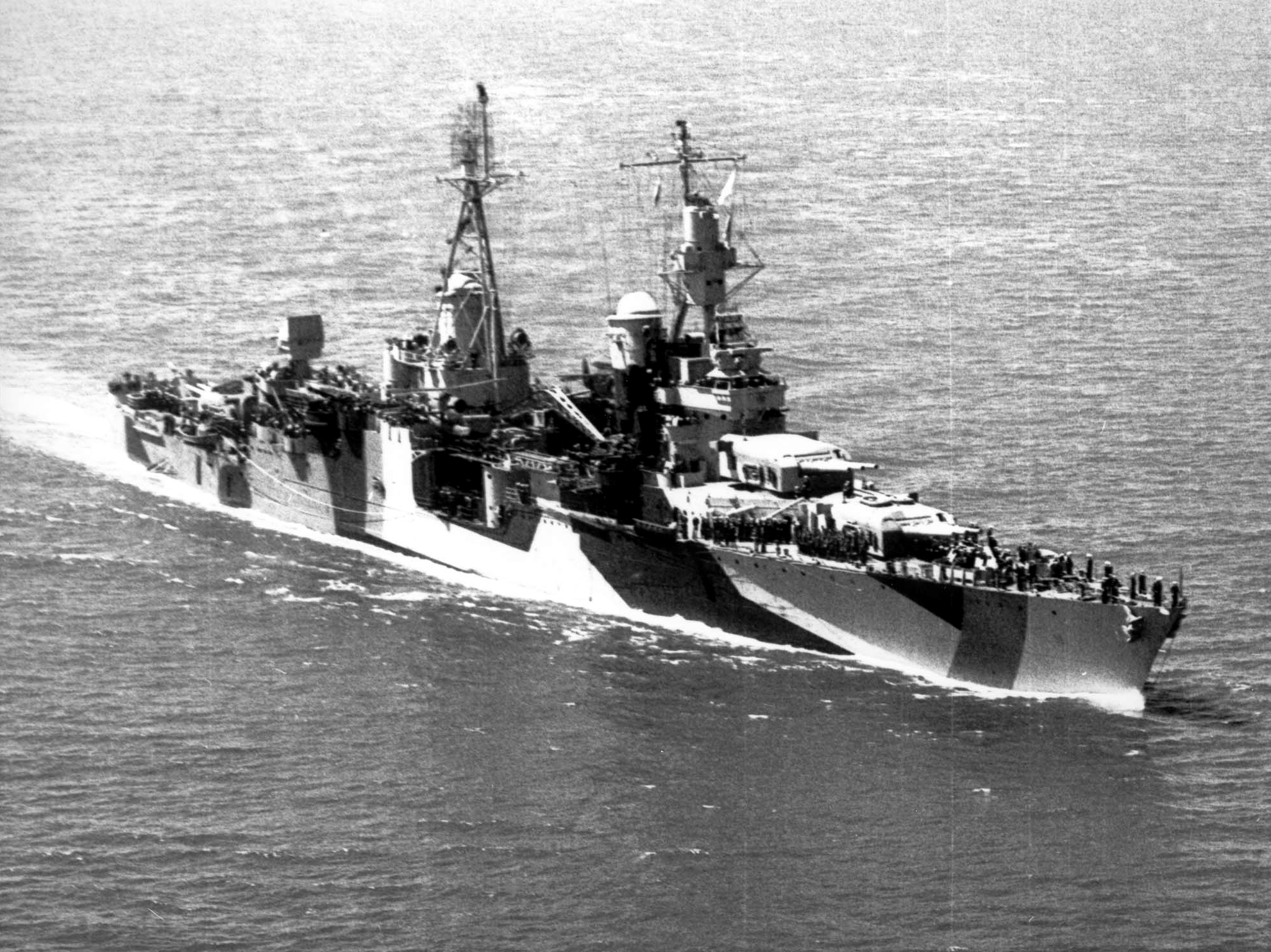 The U.S. Navy heavy cruiser USS Indianapolis (CA-35) underway in 1944. She wears Camouflage Measure 32/7D.